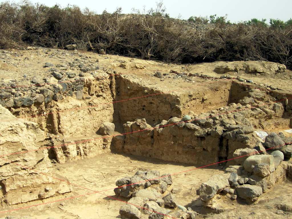 Archaeological excavations are currently underway at Adulis, 65 kilometers south of Massawa, Eritrea.